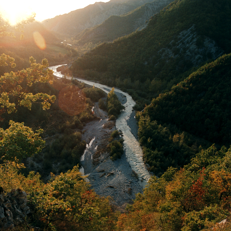 Baganza River (shoot taken from Calestano-Berceto Highway)